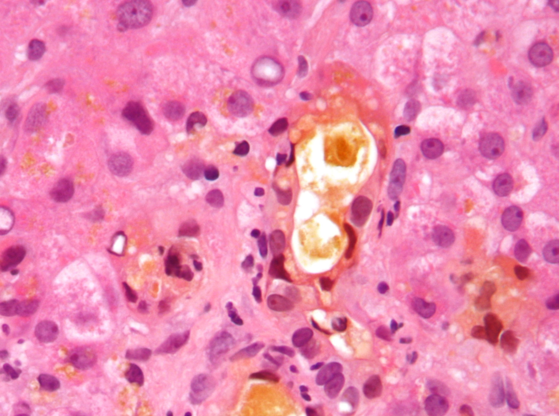 High magnification micrograph of feathery degeneration of hepatocytes in cholestasis. Liver biopsy. H&E stain. Abundant bile (yellow) is present in the bile ducts and within the hepatocytes. See also Image:Feathery degeneration high mag.jpg - uncropped version of image. Image:Ballooning degeneration high mag cropped.jpg - a histopathologic finding that appears somewhat similar, but is due to other causes.